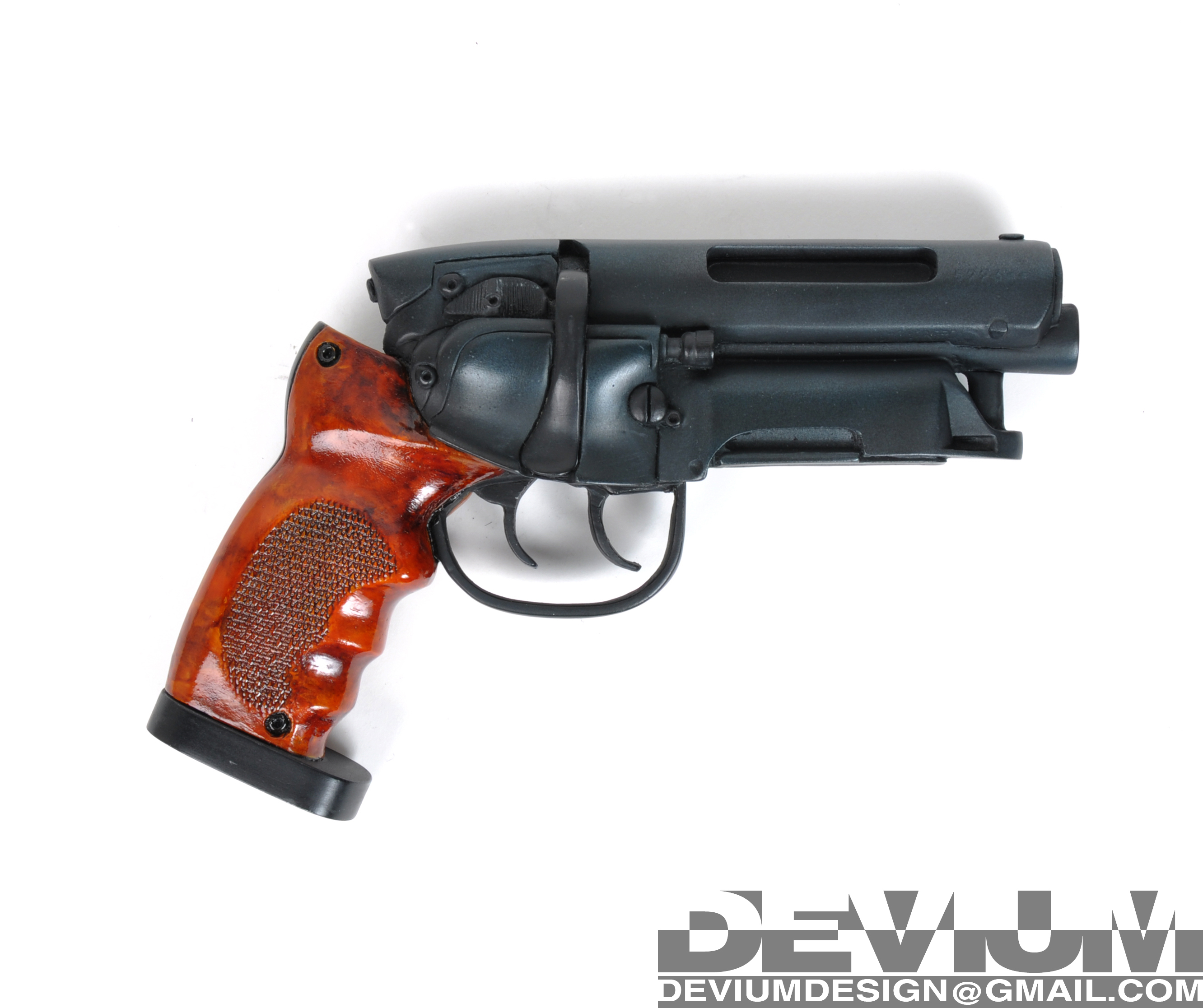 Actual casting from the stunt prop gun.